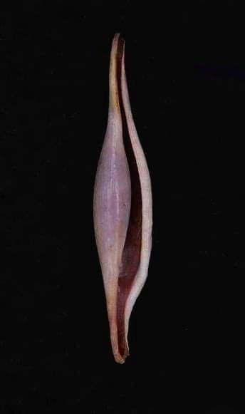 The Ovulidae seashell Phenacovolva rosea (A. Adams, 1855)[1]. Color image. From the seafans of Indo-Pacific; in East Africa to Japan, Philippines and New Zealand.[2] ABBOTT, R. Tucker; DANCE, S. Peter (1982). Compendium of Seashells. A color Guide to More than 4.200 of the World's Marine Shells. New York: E. P. Dutton. p. 100. 412 pp. ISBN 0-525-93269-0